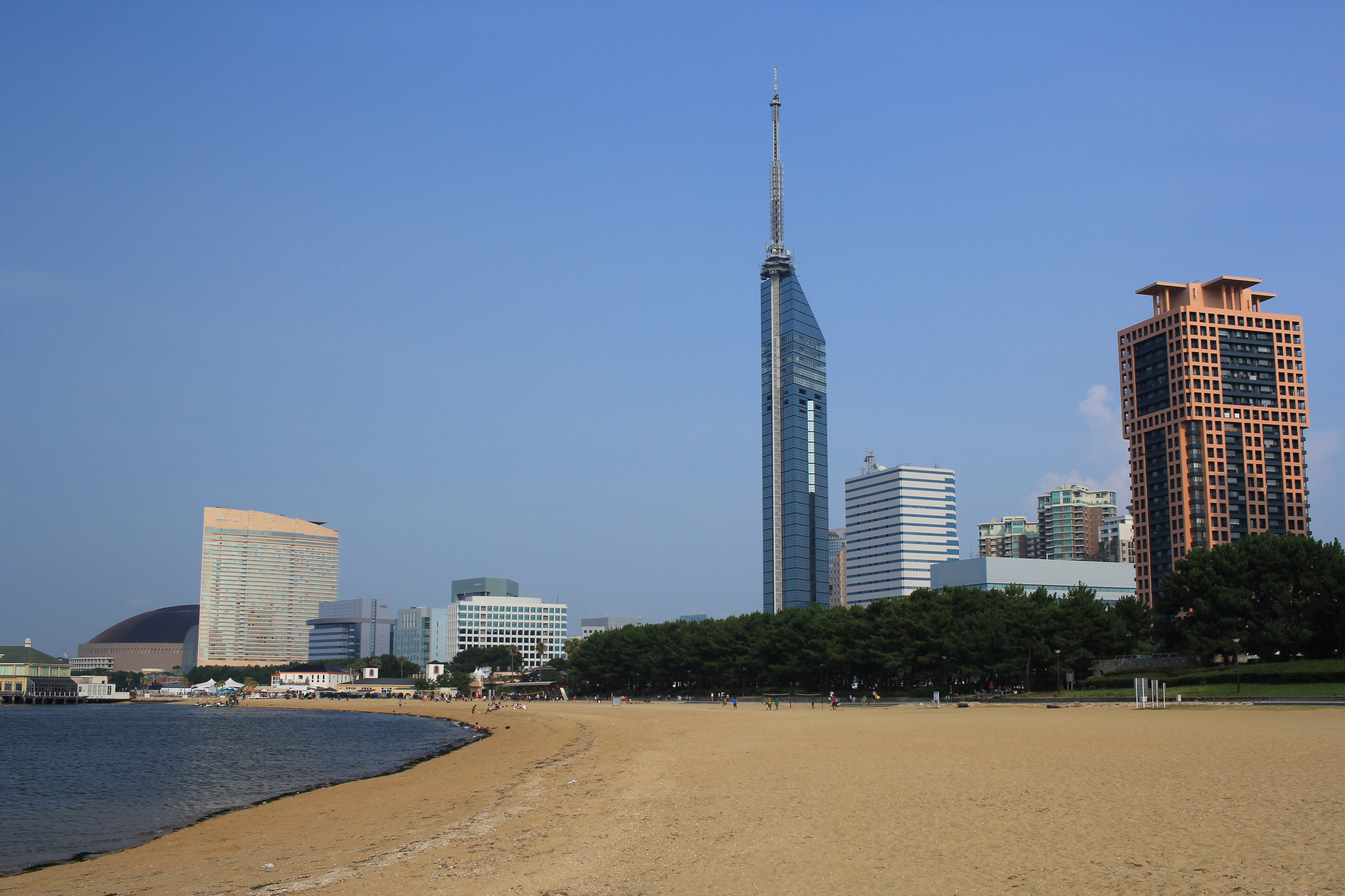 Seaside-momochi Canon EOS 60D